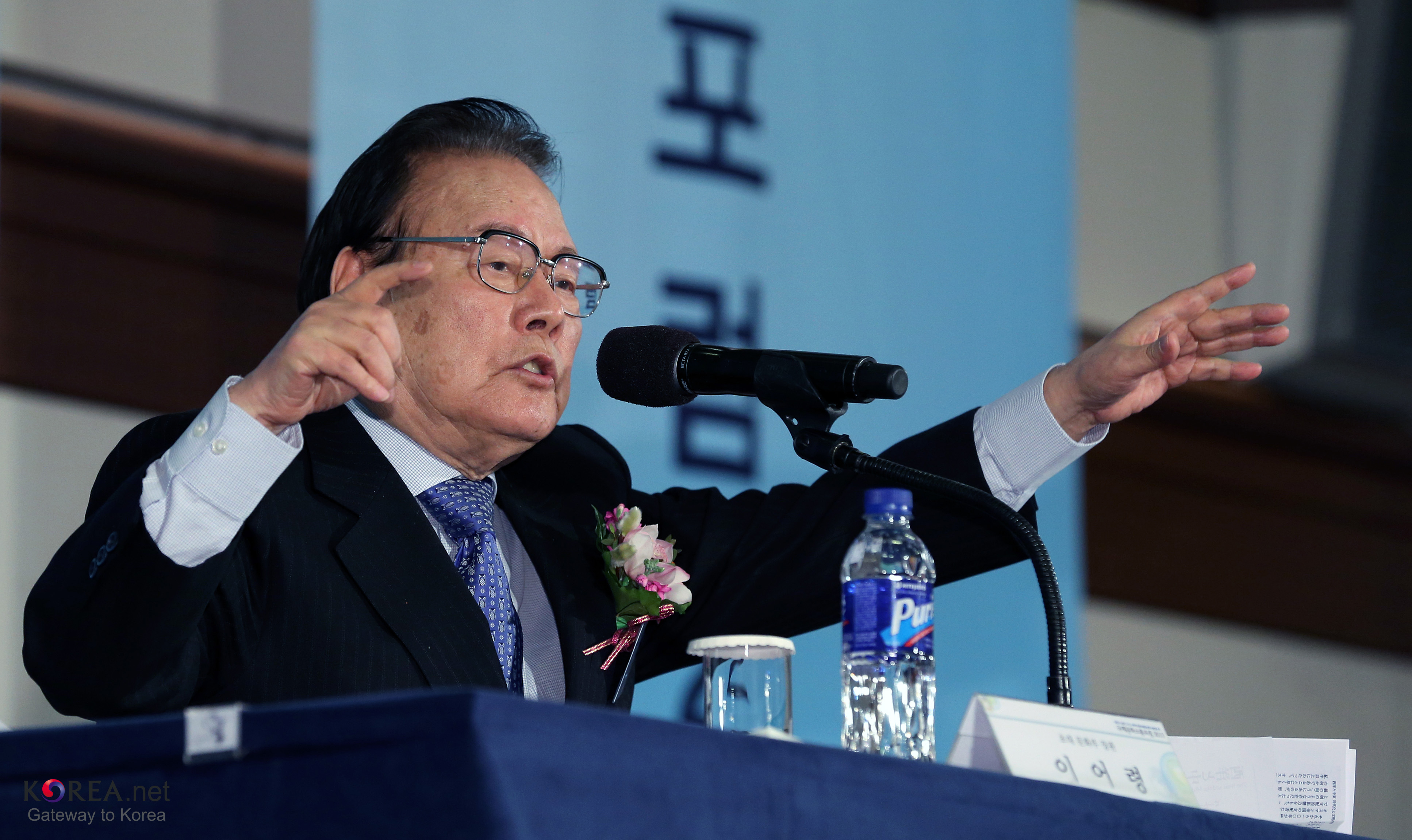 International Culture Communications Forum 2013 Lee O-Young, 1st Minister of Culture COEX, Seoul 2013.01.18. Ministry of Culture, Sports and Tourism Korean Culture and Information Service Jeon Han 국제문화소통포럼 2013 이어령(李御寧) 초대 문화부장관 기조강연 코엑스 문화체육관광부 해외문화홍보원 코리아넷 전한